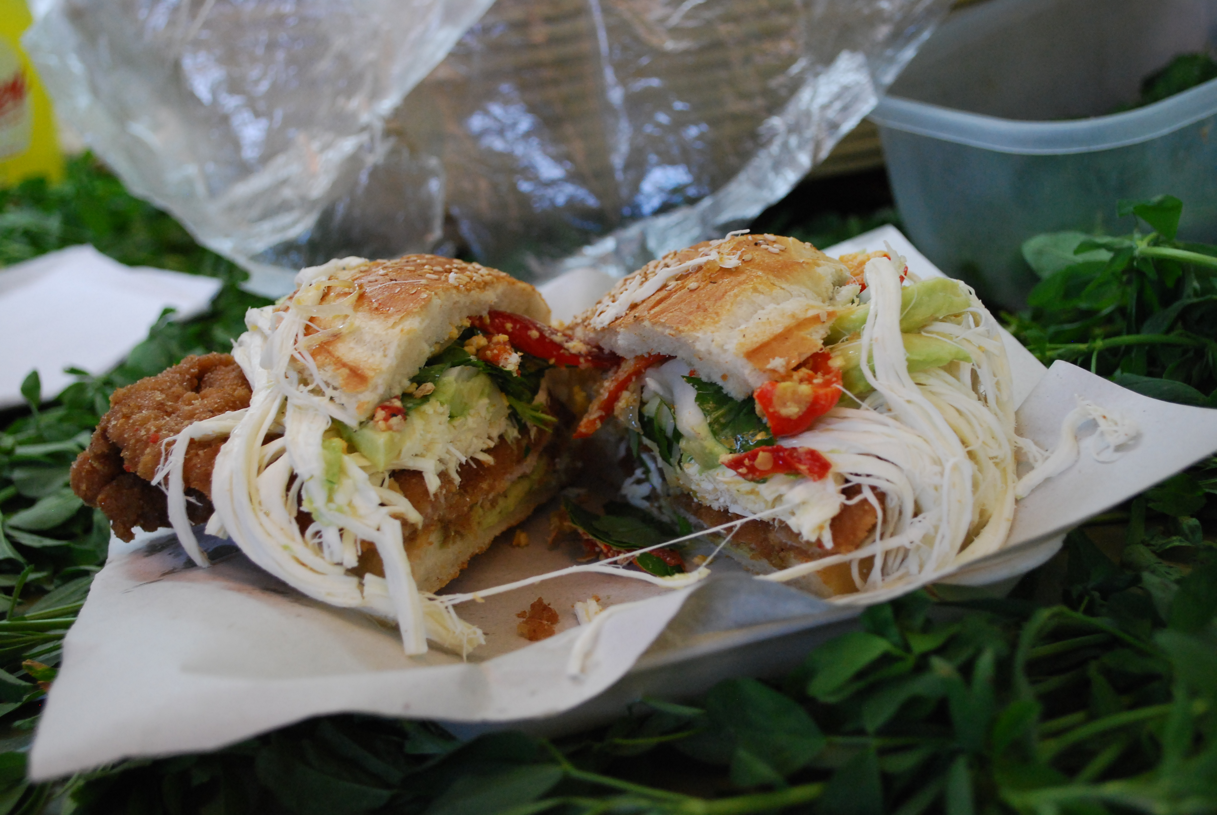 View of a cemita sandwich as served at a food stand in the Cemita Market in Puebla, Mexico